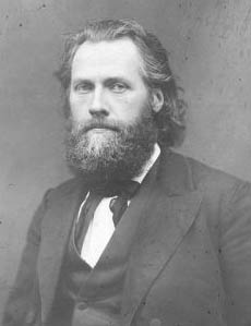 Portrait of Ferdinand Domela Nieuwenhuis (1846-1919)